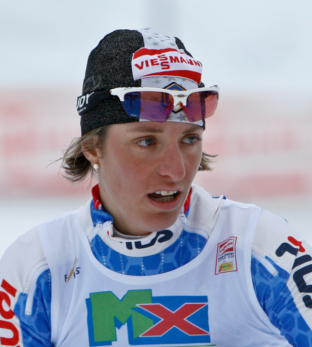 Magda Genuin at the FIS World cup cross country skiing sprint for women 12 March 2009 in Trondheim, Norway. The license on this photo is Creative Commons (CC-BY-SA). If you use this picture, remember to give credit according to the license (